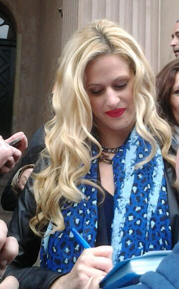 Portuguese Eurovision 2014 entrant Suzy in Eurovision Village on May 8.